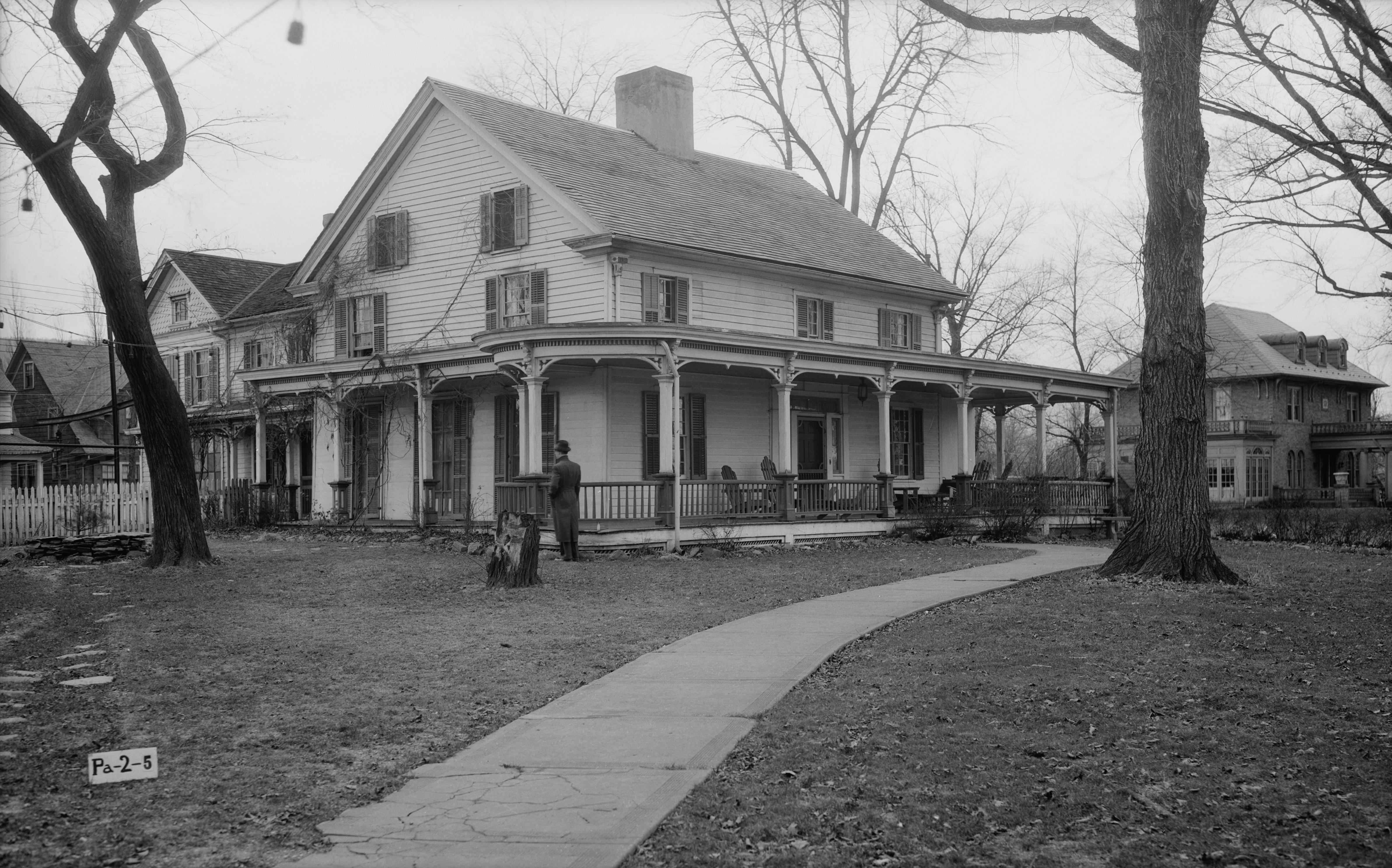 Front of the Denison House, located at 35 Denison Street in Forty Fort, Pennsylvania, United States. Built in 1790, it is listed on the National Register of Historic Places.